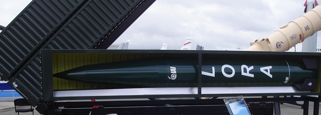 This LORA is a quasiballistic missile by Israel Aerospace, here shown in its launch tube which is transported as a set of four (shown angled in the background top-left) at the 2007 Paris Air Show.